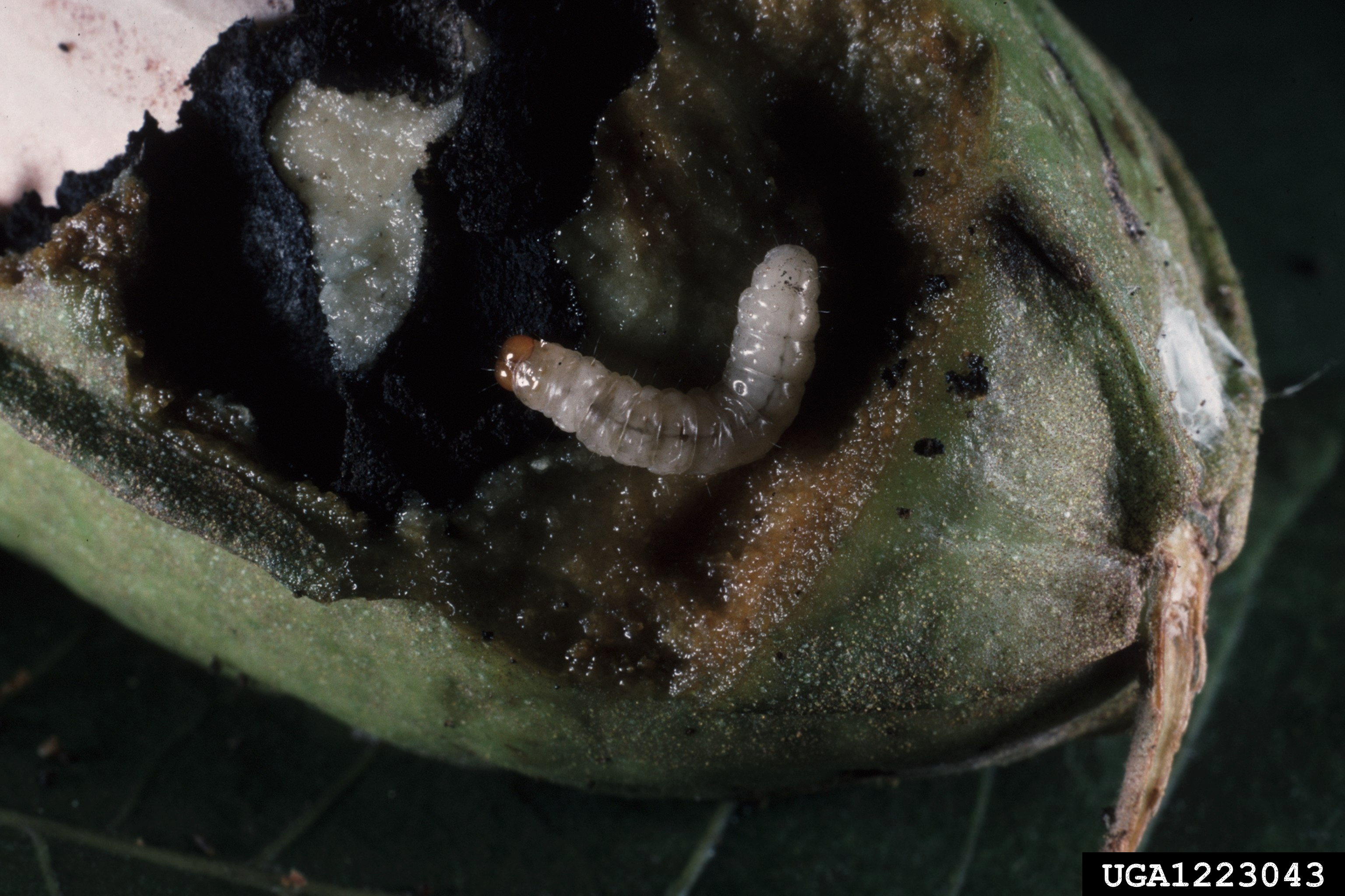 Cydia caryana larva